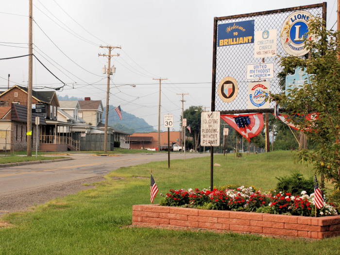 I took this picture.